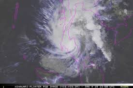 Pabuk over Thailand